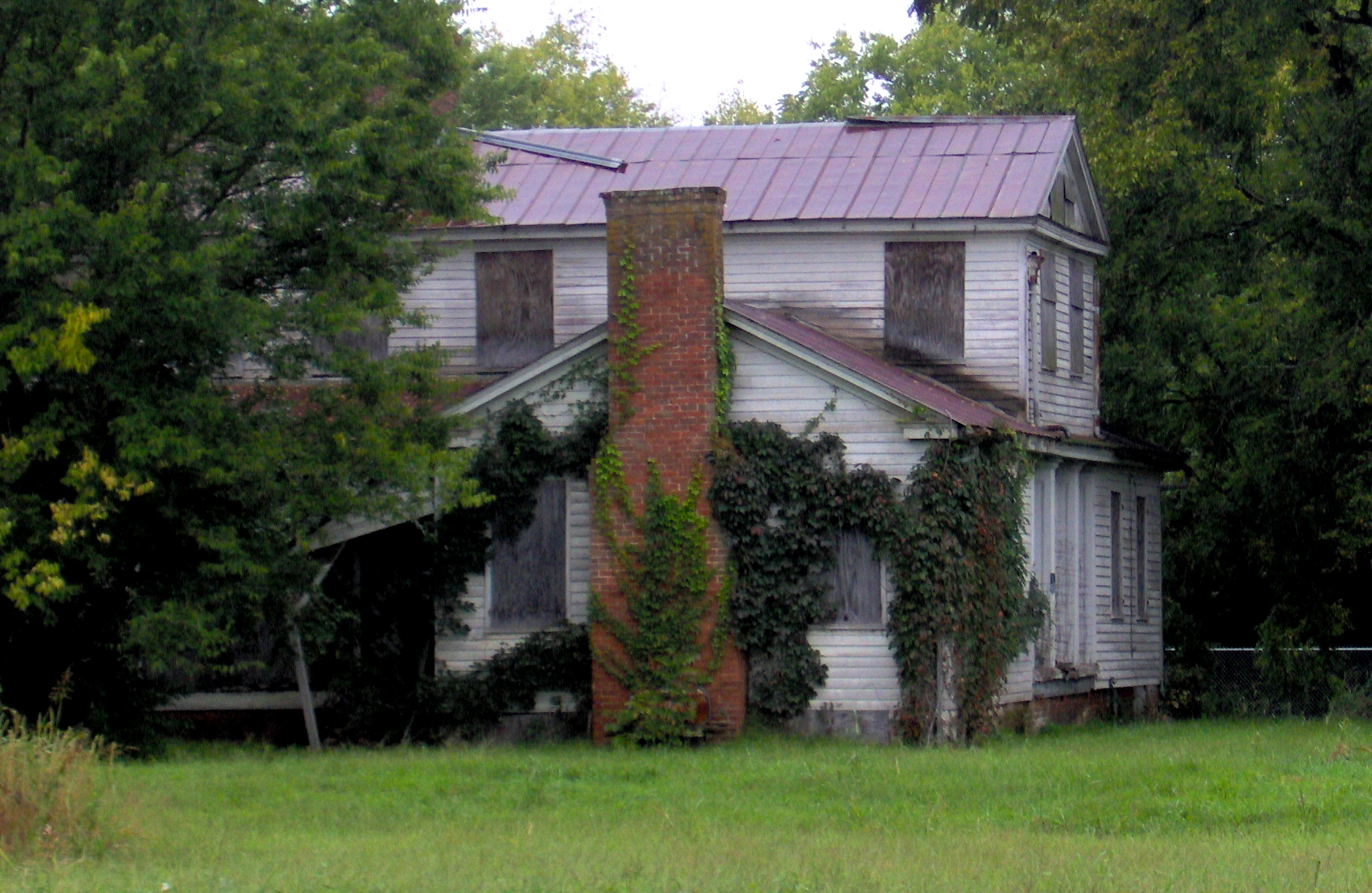 View of the east end of Rose Glen, a historic house and outbuildings in the U.S. city of Sevierville, Tennessee, USA.